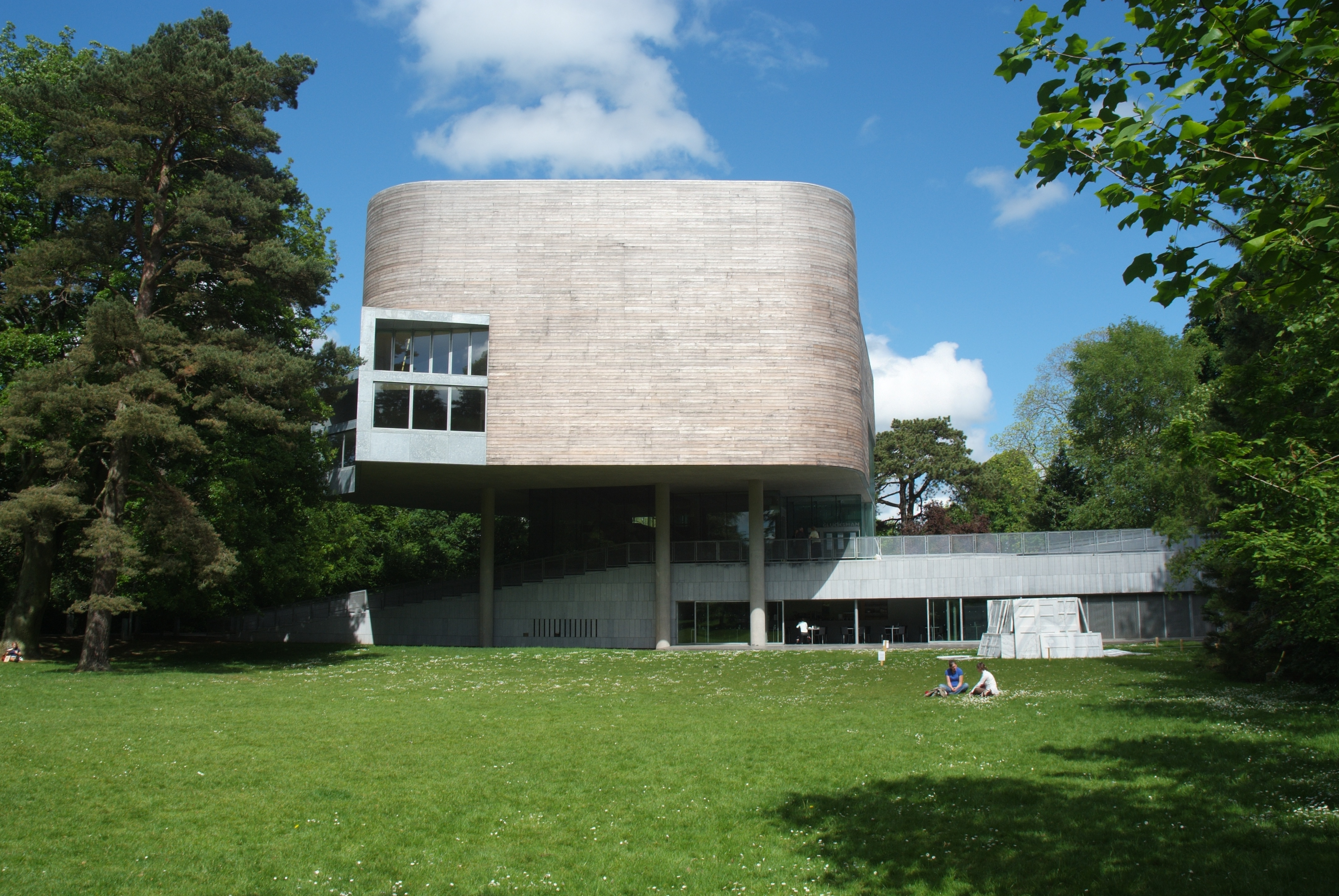 Lewis Glucksman Gallery: view from lower grounds of University College Cork